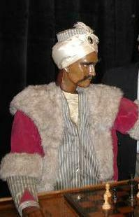 Source image: This is a derivative, released under the GFDL and CC. Tags below.